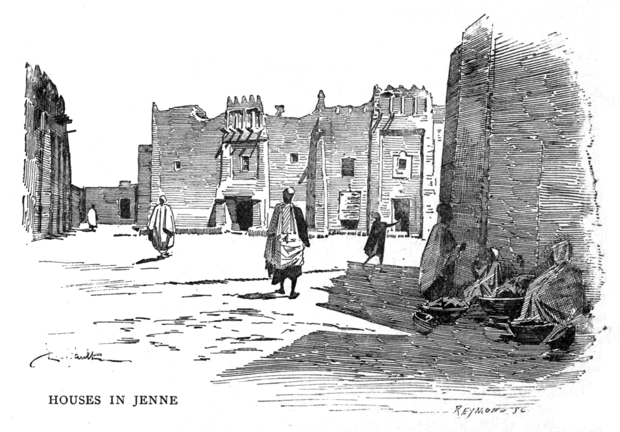 Dubois, Félix (1896), Timbuctoo: the mysterious, White, Diana (trans.), New York: Longmans. page 92. Houses in Djenné